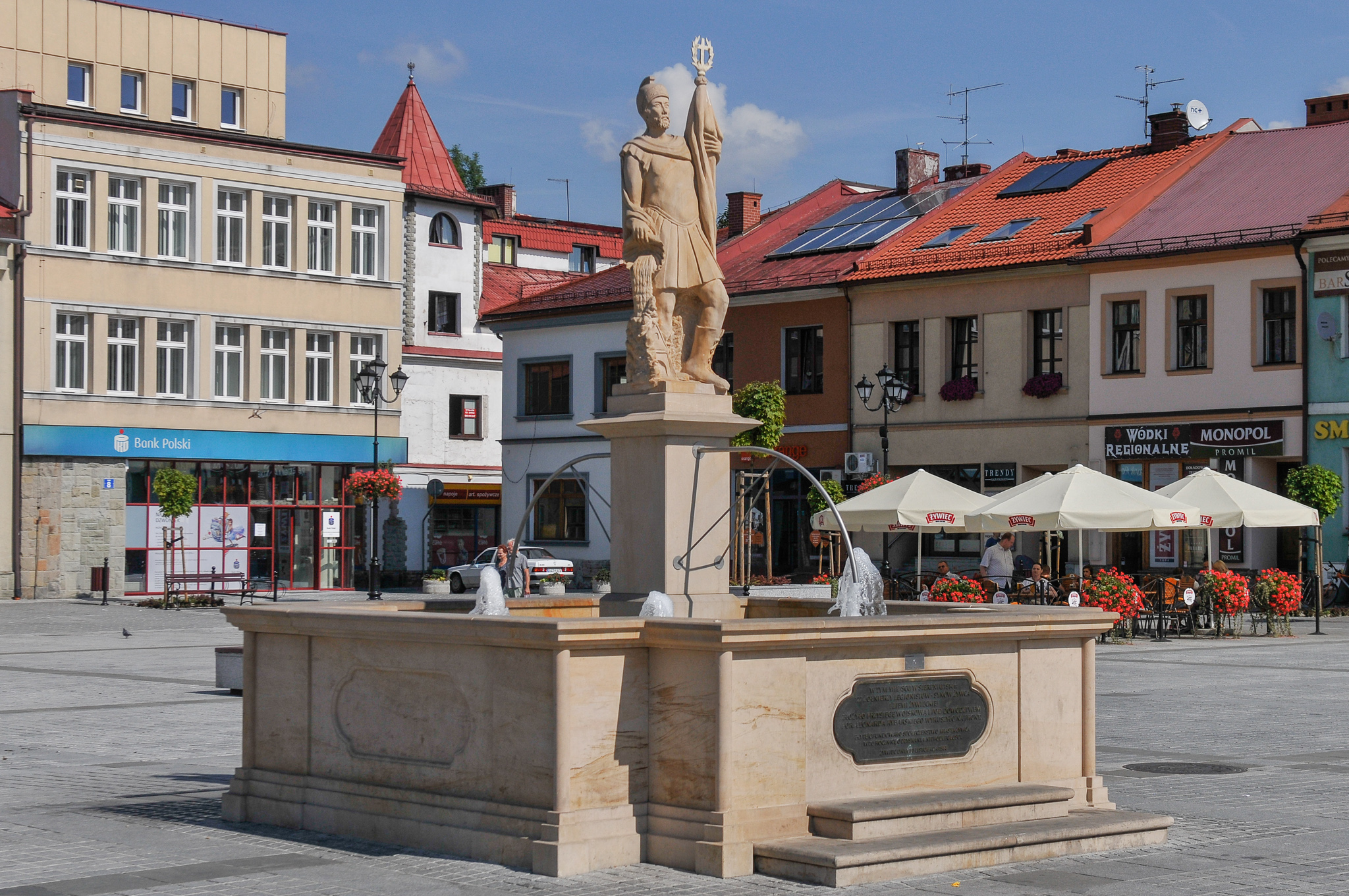 Saint Florian monument in Zywiec